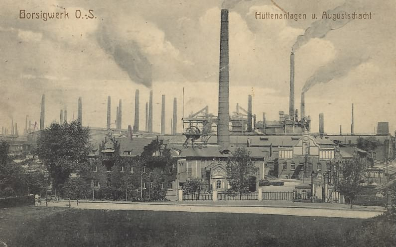 Borsig Steelworks and Shaft August (later Stanisław) of Coal Mine Hedwigswunsch (later Pstrowski) in Zabrze, Poland. German postcard, ca. 1913.